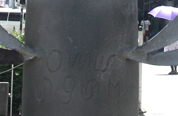 Monument for the killing of Ronald Abaisa (aka Jowini Abaisa), Dr. Sophie Redmondstraat. Paramaribo, Surinam. By Jack Pinas, 1974. Detail of text in Afaka script.